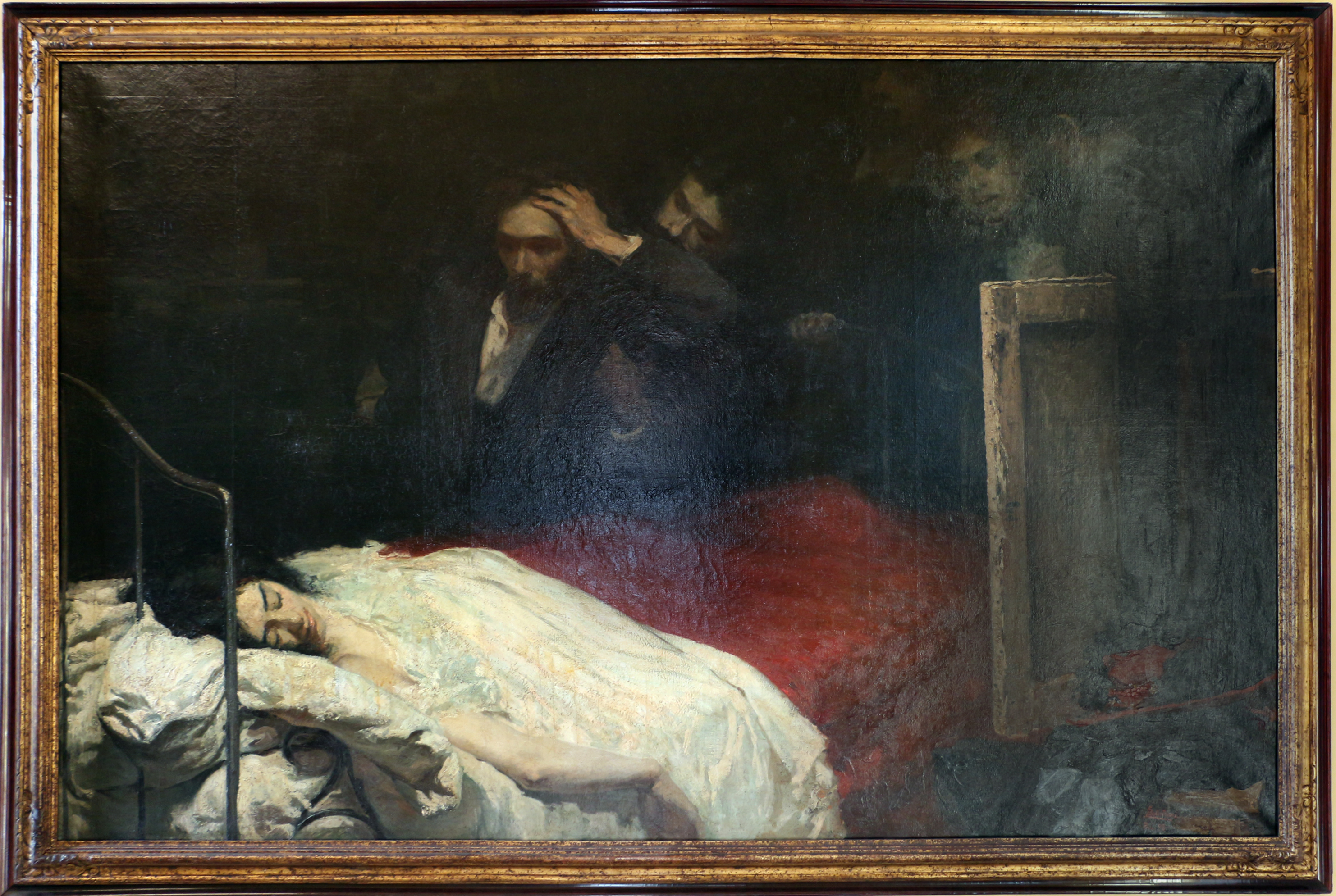 Fondazione Cavallini Sgarbi, on exhibition in Osimo (2016)